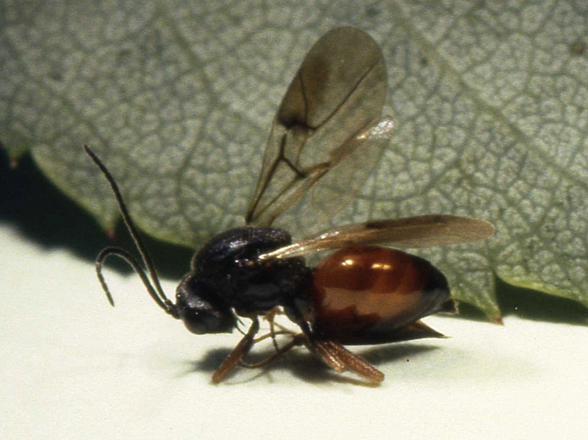 Diplolepis rosae, gall forming insect. Germany, Göttingen.